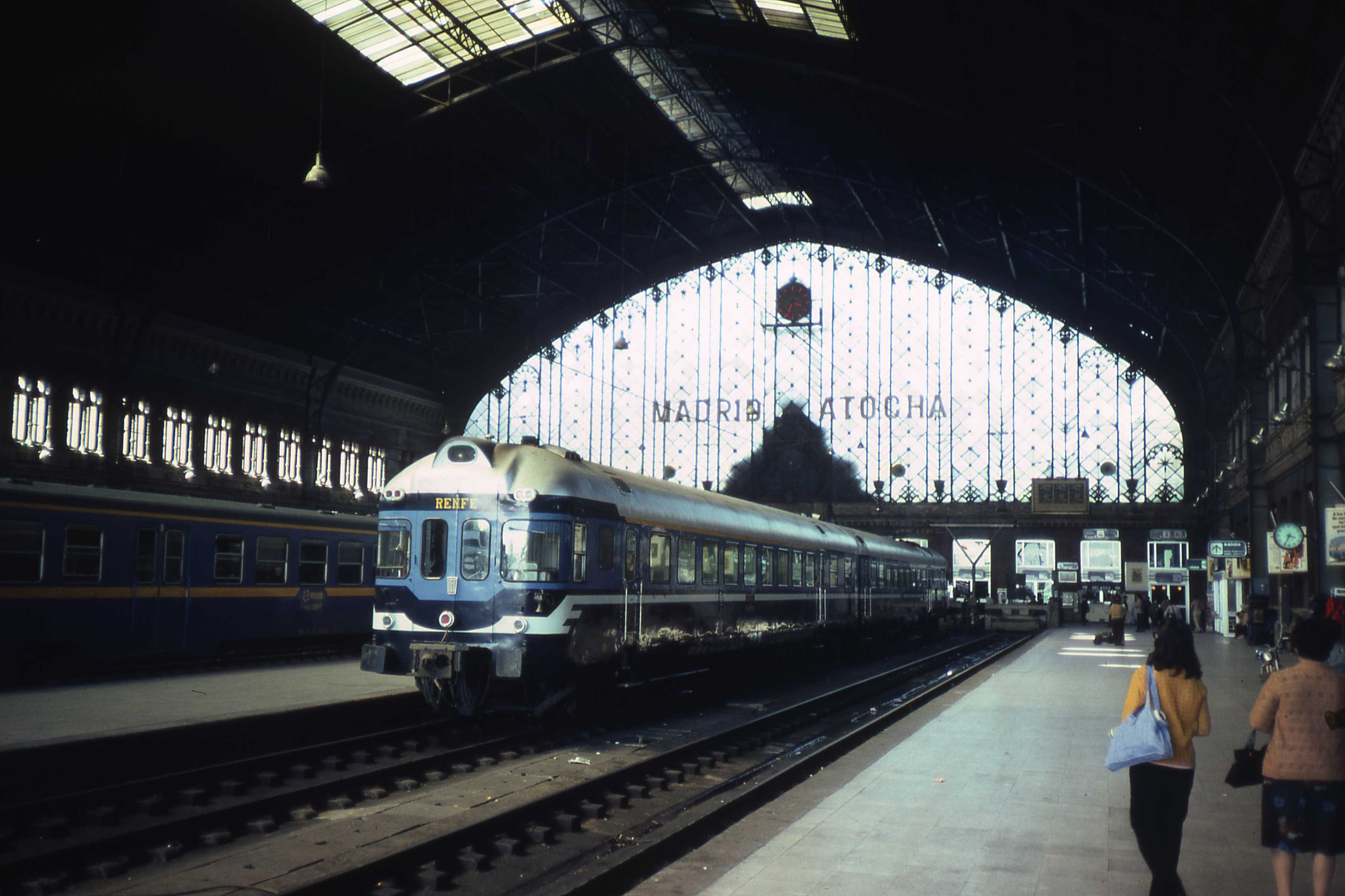 RENFE Class 597 multiple diesel unit in old Madrid Atocha hal in 1981 in old livery